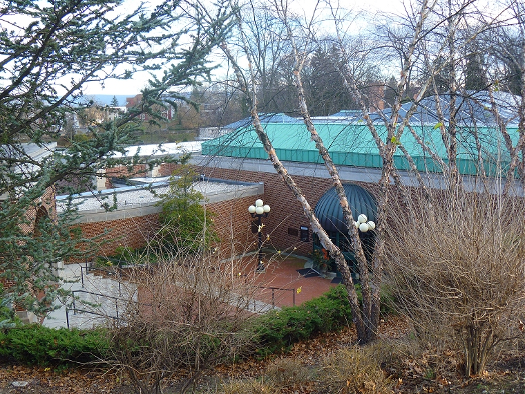 Hagerstown Museum of Fine Arts Entrance